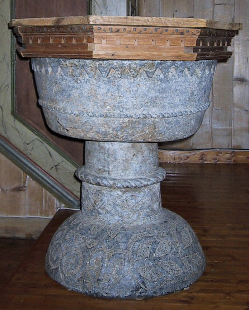 Baptismal font in Brandval church, soapstone, from ca.1175-1250.